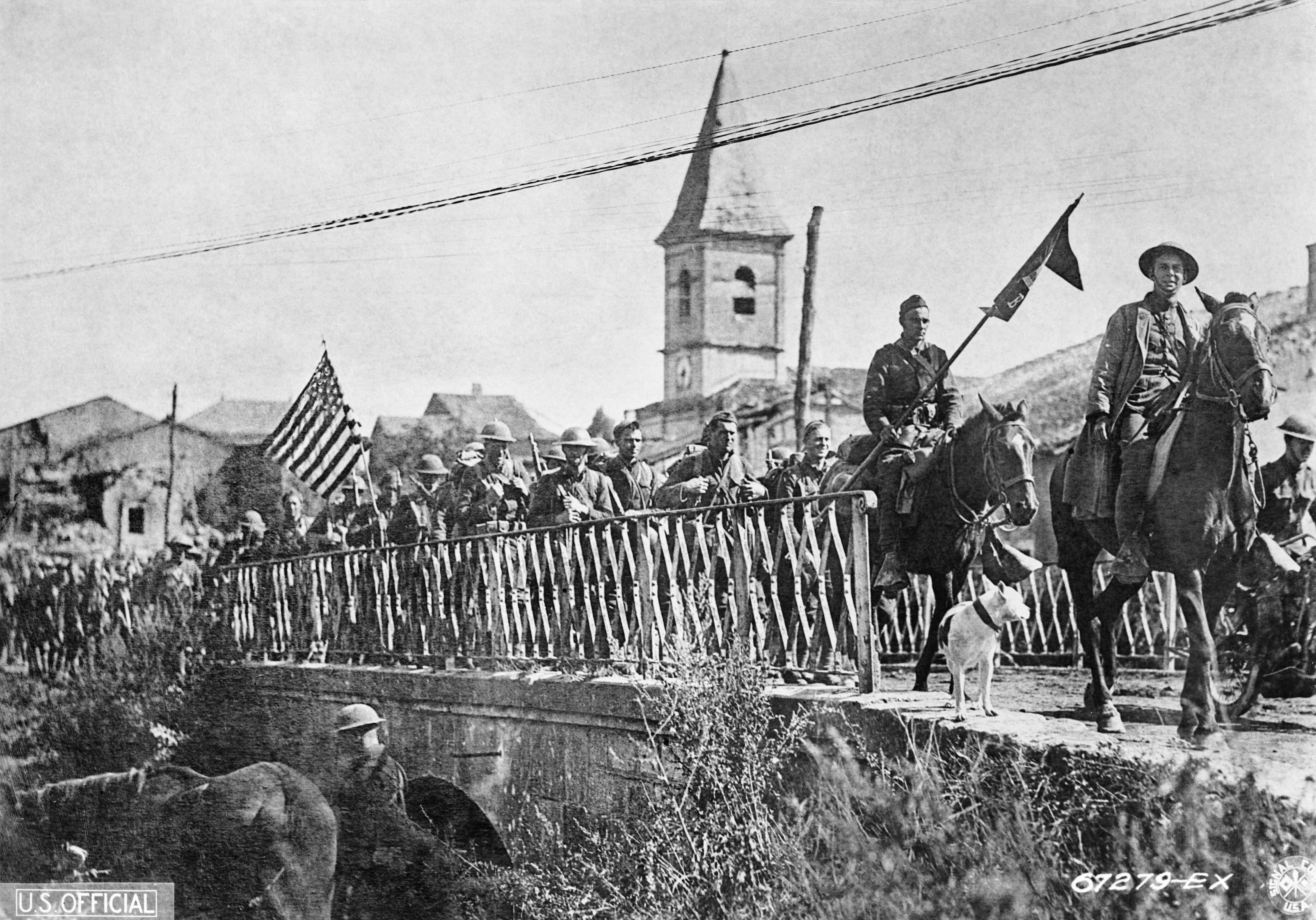 The American Army on the Western Front, 1918 Returning from the Front. Company B, 1st Engineers, 1st Division. Colours flying, entering shell-torn town on return from their job on the firing line. Nonsard.